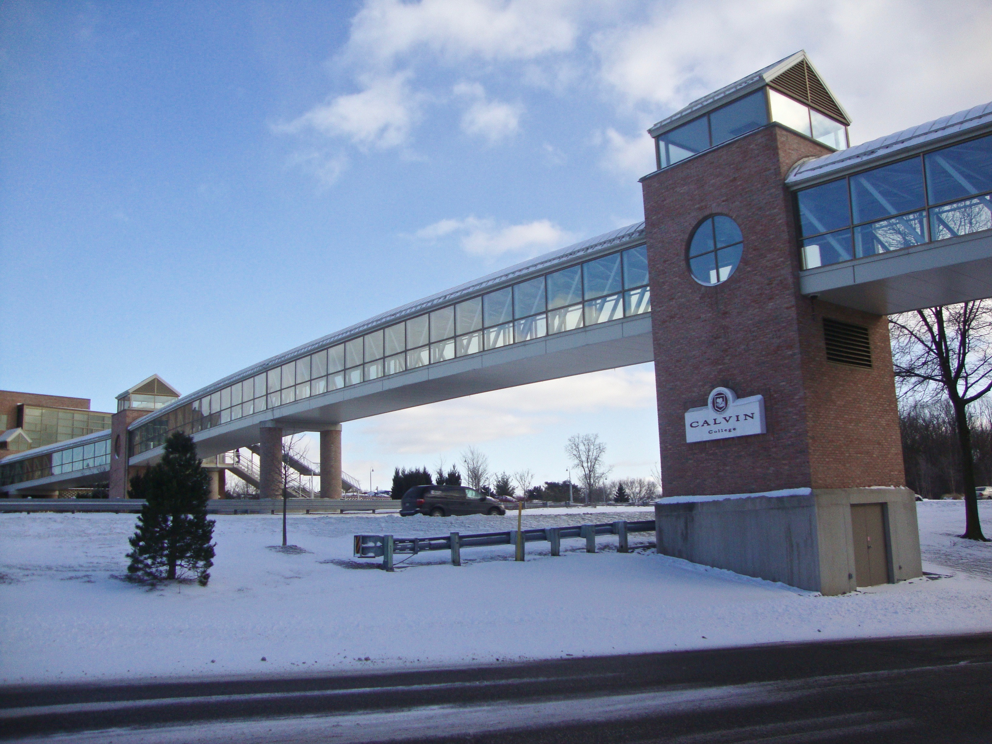 Calvin Crossing, photographed in winter 2012.